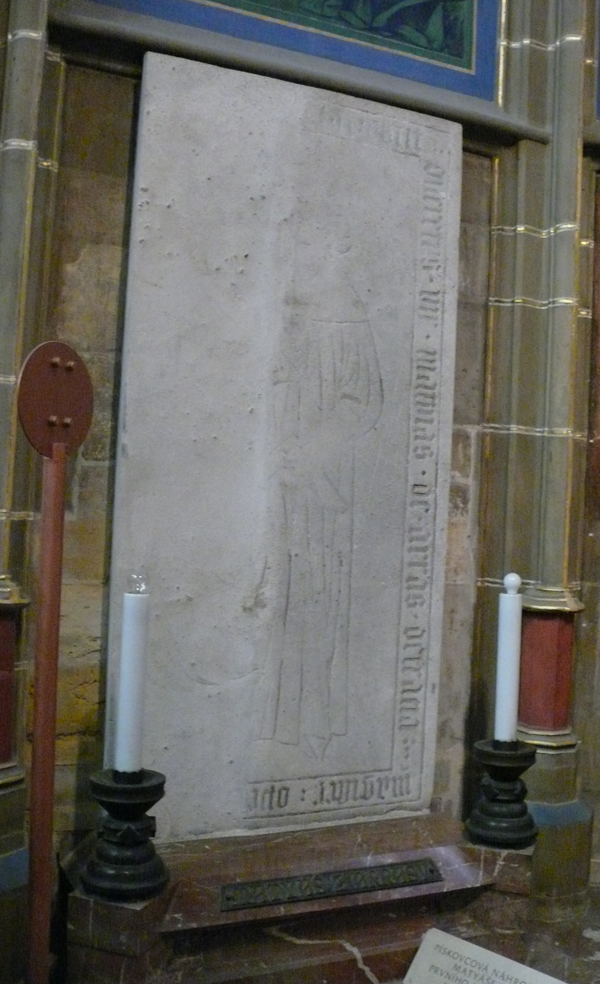 Matthias of Arras Česky: Náhrobní deska Matyáše z Arrasu